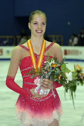 Carolina Kostner during the ladies medals ceremony at the 2008-2009 Grand Prix Final.